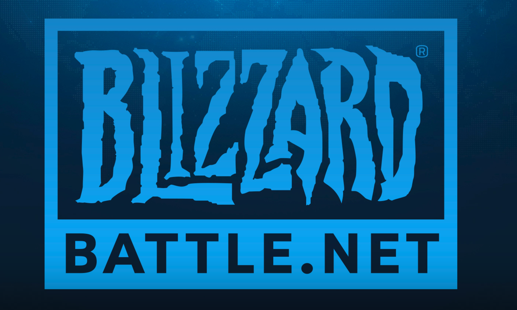 Official logo of Blizzard as of August 14, 2017